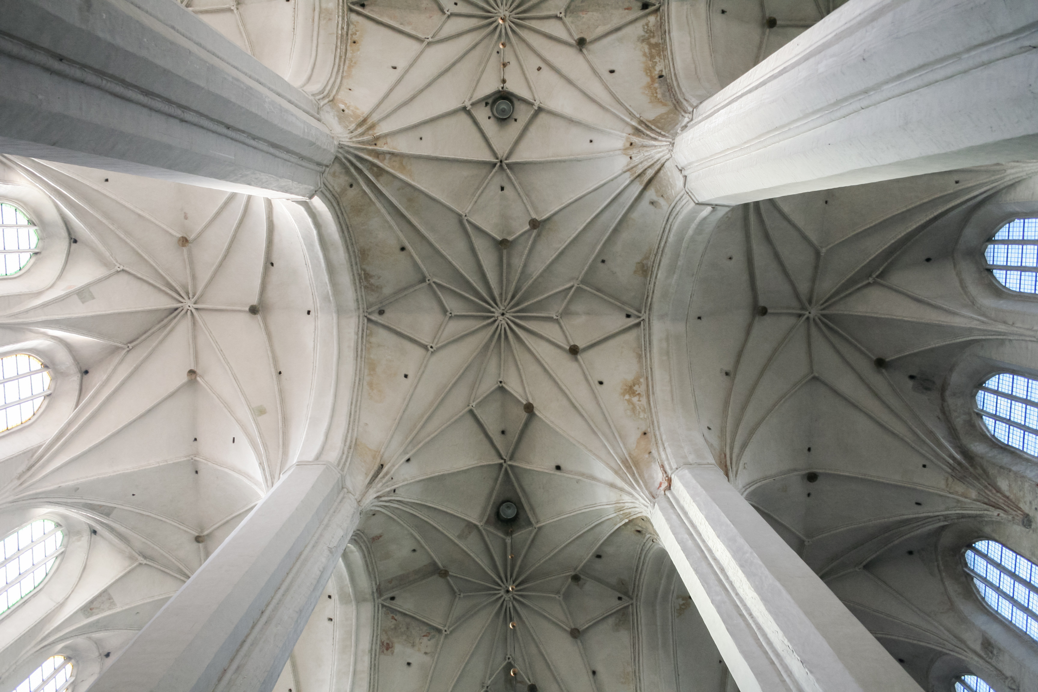 Toruń, church of SS. Johns, vaults in the nave